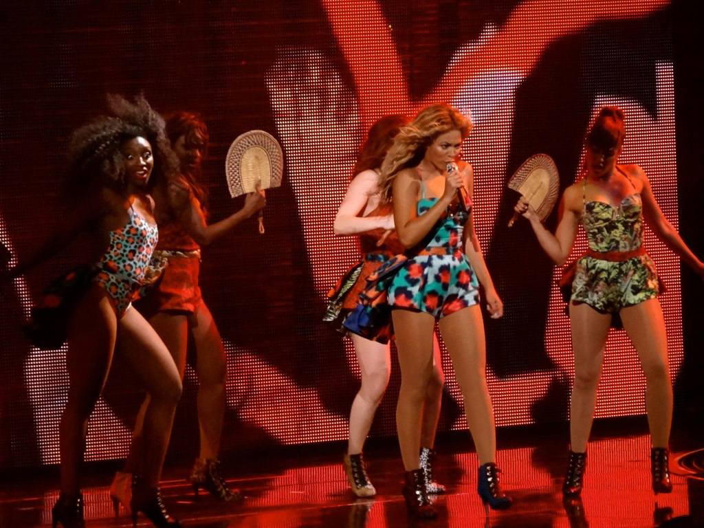 Beyonce performing "Grown Woman" live in Montreal in 2013 during The Mrs. Carter Show World Tour.